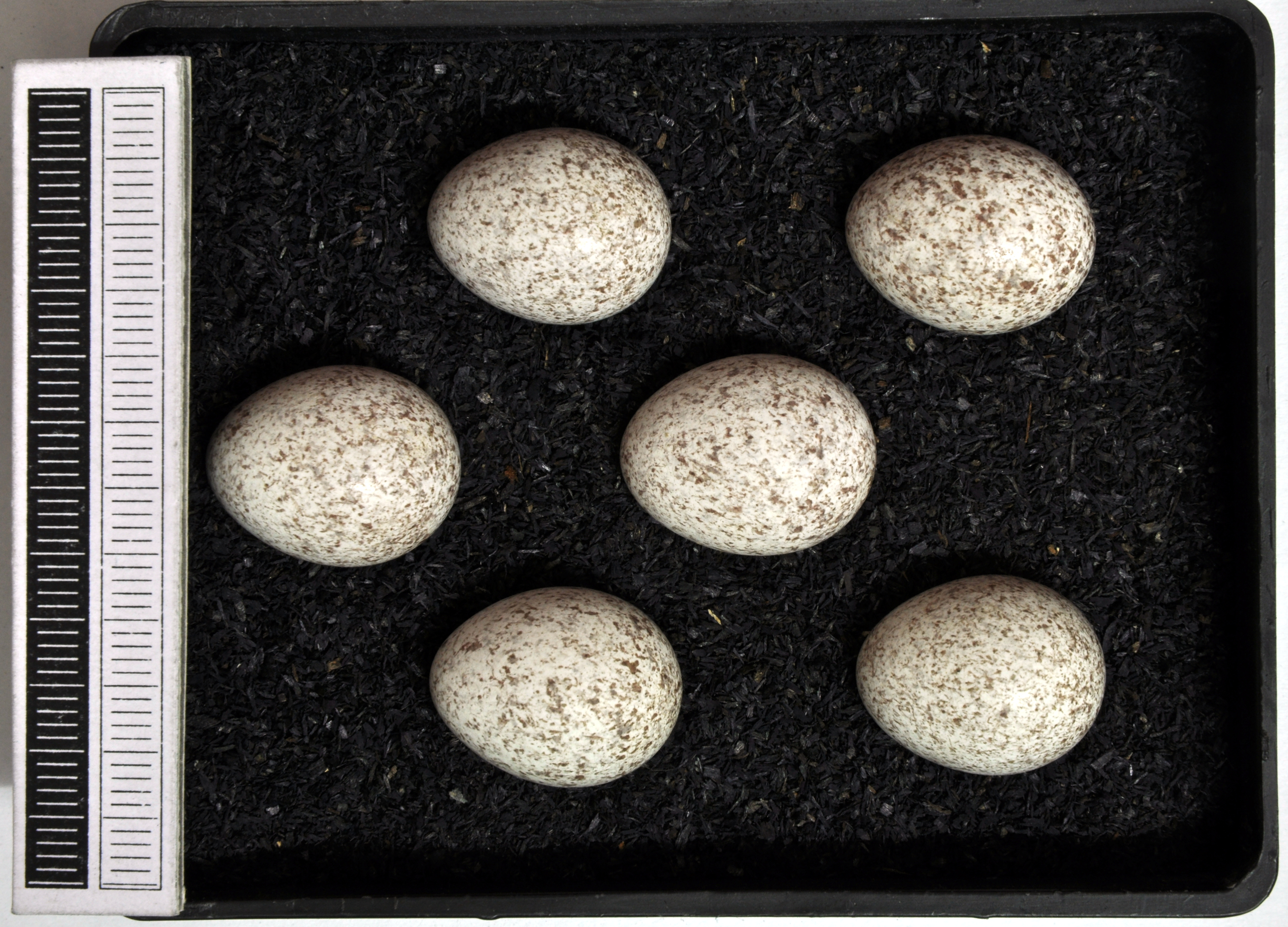 White wagtail Motacilla alba alba, egg, Coll. Museum Wiesbaden, Origin: Ebersberg, Bavaria, 21.05.1969, leg. W. Abelmann